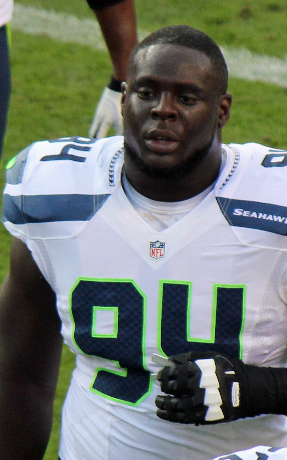 Jaye Howard, a player on the National Football League.